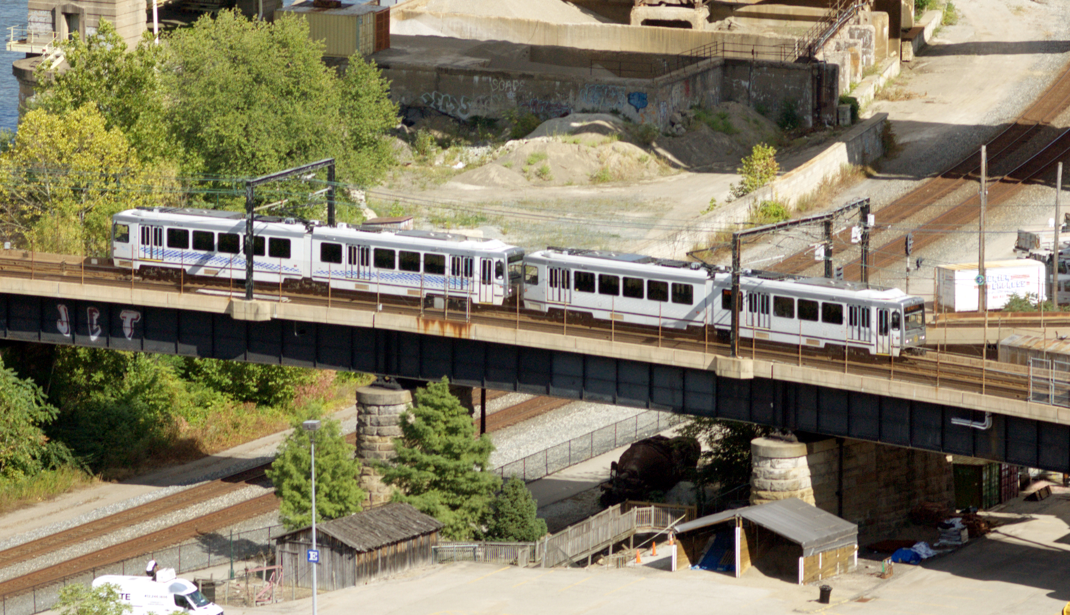 Pittsburgh Light Rail, as seen from Mount Washington.